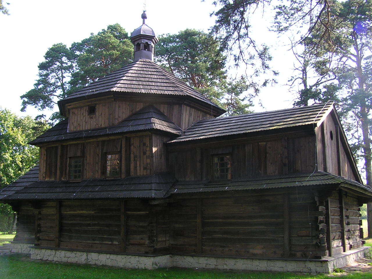 autor: Yarek shalom 08:34, 25 October 2006 (UTC)yarek shalom